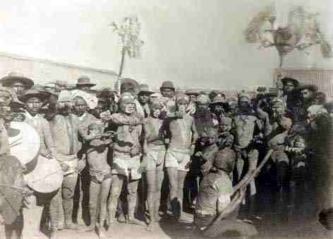 Indians arriving for the first time in Durban, South Africa. The date is unknown, but very likely before World War One. very likely a south african image